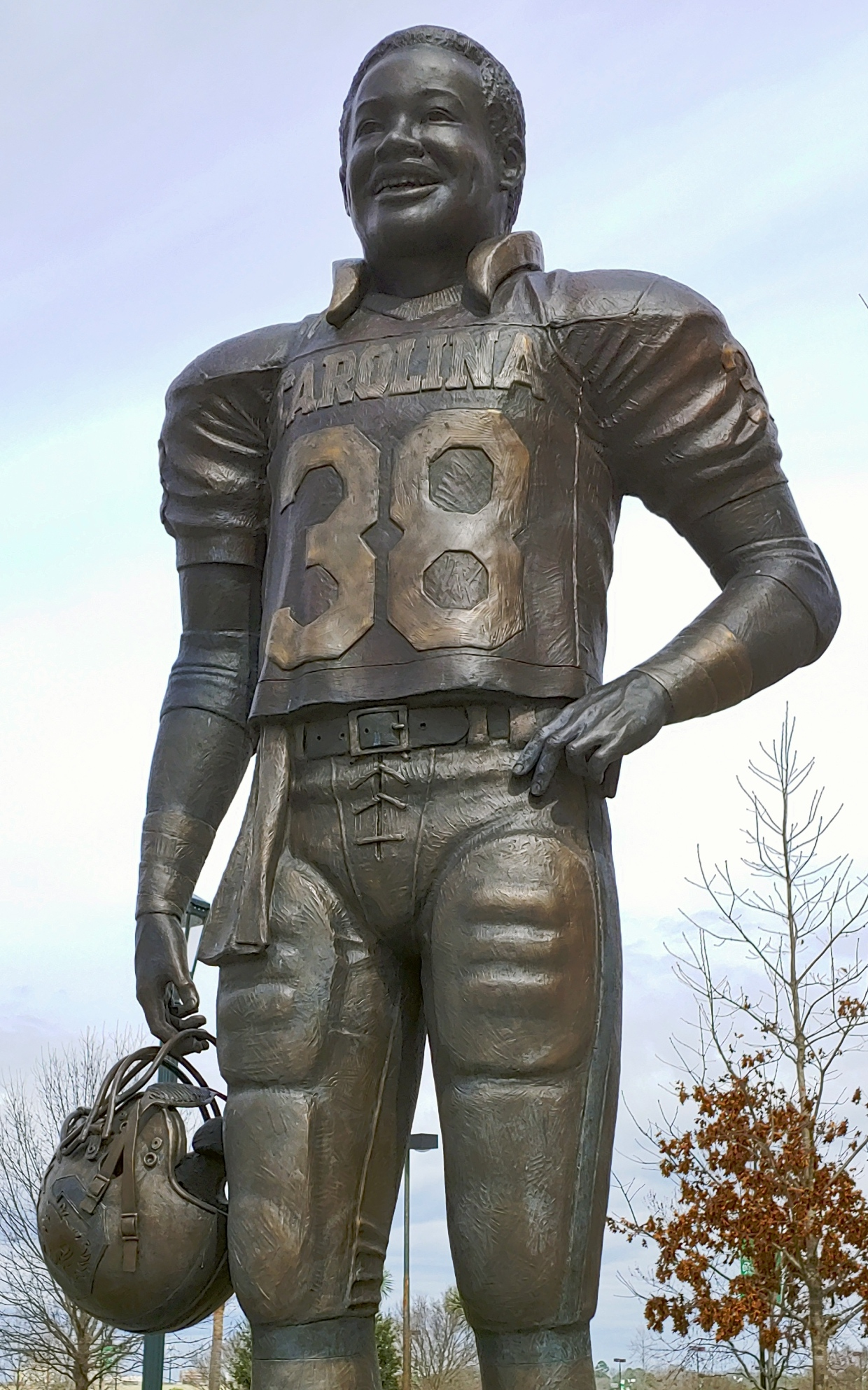 Statue of 1980 Heisman Trophy winner George Rogers outside Williams-Brice Stadium in Columbia, South Carolina.